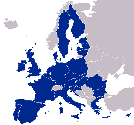 Blue Map of the European Union member states